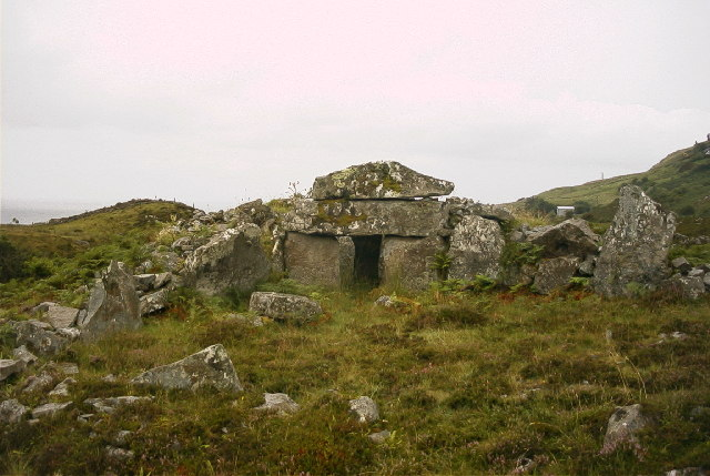 Megalithic tomb near Shalwy. Visible from the main road, but quite difficult to get to on foot.